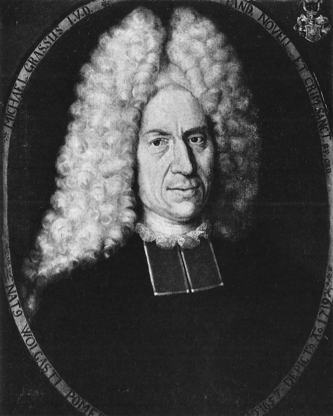 The german jurist Michael Grass the younger (1657–1731)